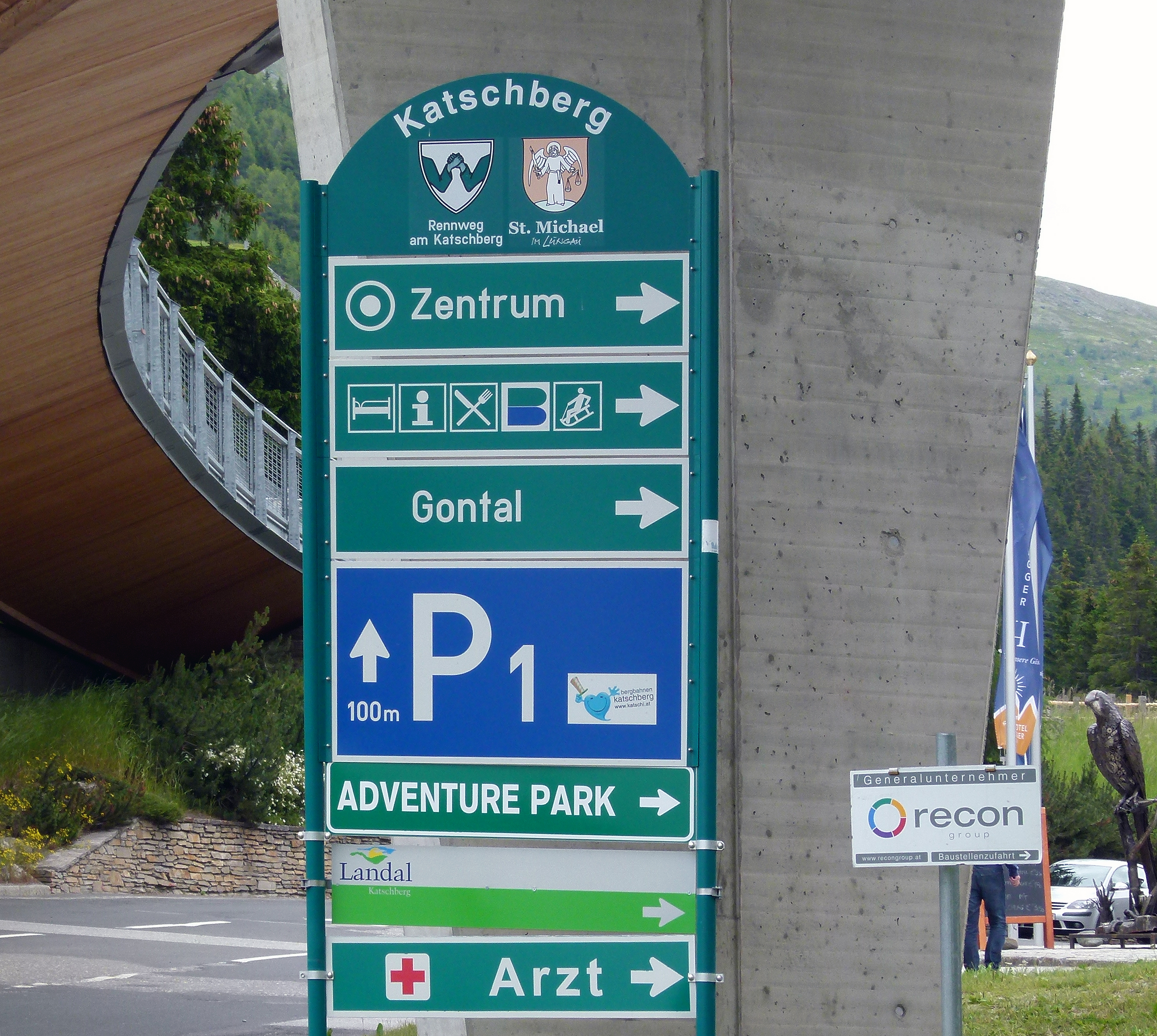 Katschberg Pass, Austria